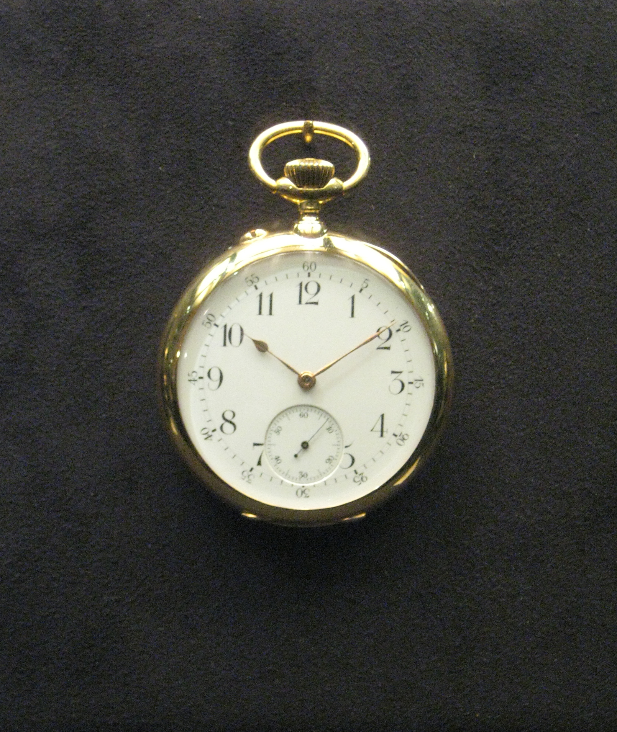 Pocket watch, Ch.Bertoud. Switzerland, 1890. Yellow gold. Patrimoine Jaeger-LeCoultre